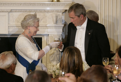 President George W. Bush toasts Her Majesty Queen Elizabeth II of Great Britain following welcoming remarks Monday, May 7, 2007, during the State Dinner in her honor at the White House. White House photo by Shealah Craighead.